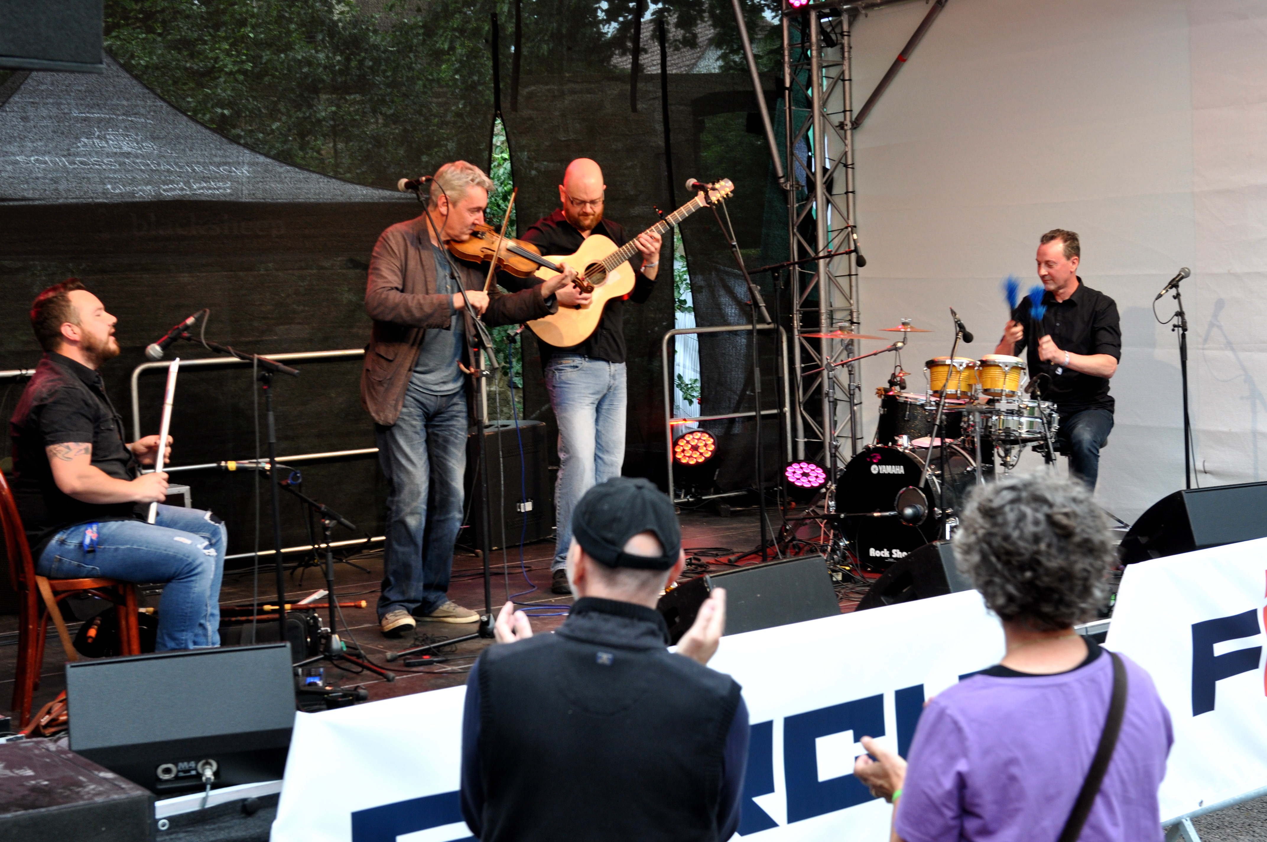 Old blind Dogs (SCO) appearance at the 2016 blacksheep festival at Bonfeld castle, Bad Rappenau, Dorweiler, Baden- Wuerttemberg, Germany Festivalsommer This photo was created with the support of donations to Wikimedia Deutschland in the context of the CPB project "Festival Summer".